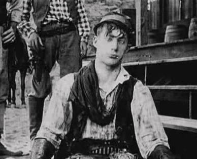 Al St. John in Roscoe Arbuckle comedy"Out West" (1918).